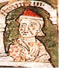 Henry IX of Bavaria